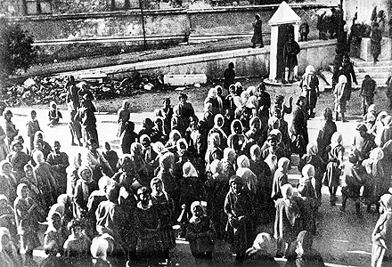 Muslim refugee by the compulsory population exchange.